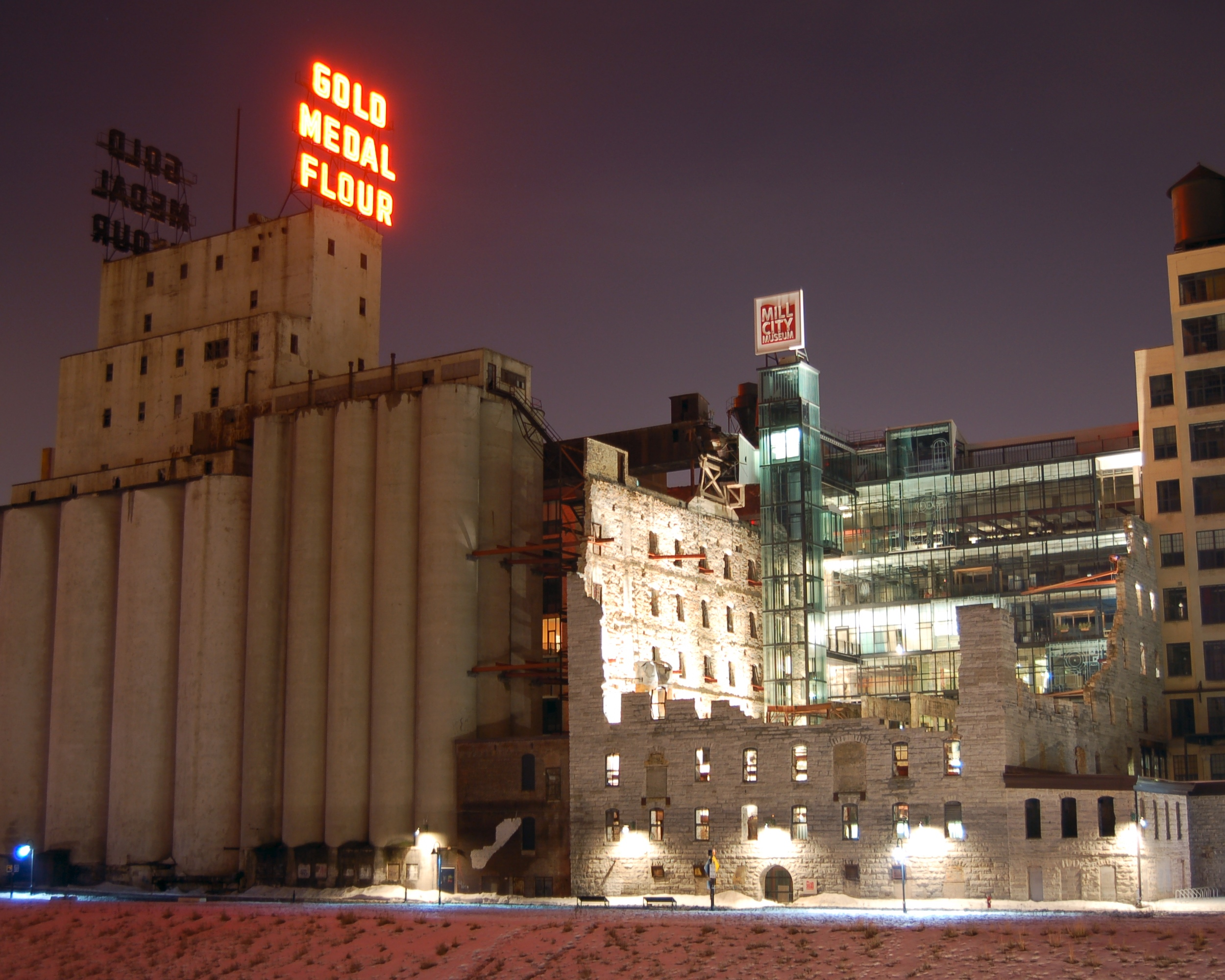 Gold Medal Flour, Washburn "A" Mill, Mill City Museum, Minneapolis, Minnesota